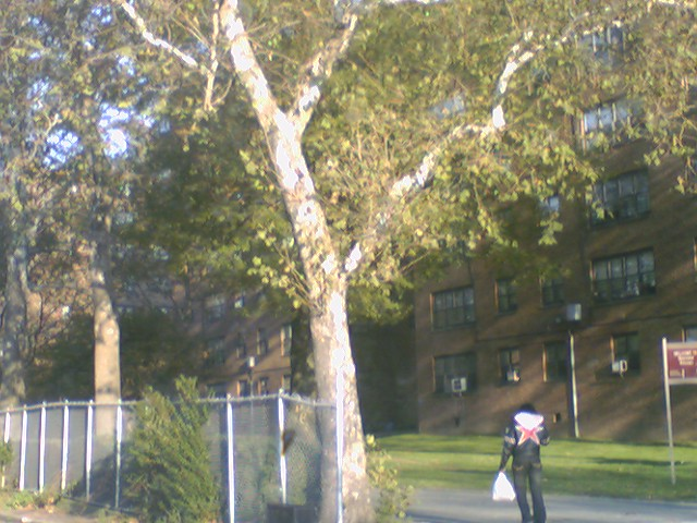 Subsidized public housing in Canarsie, Brooklyn, NYC